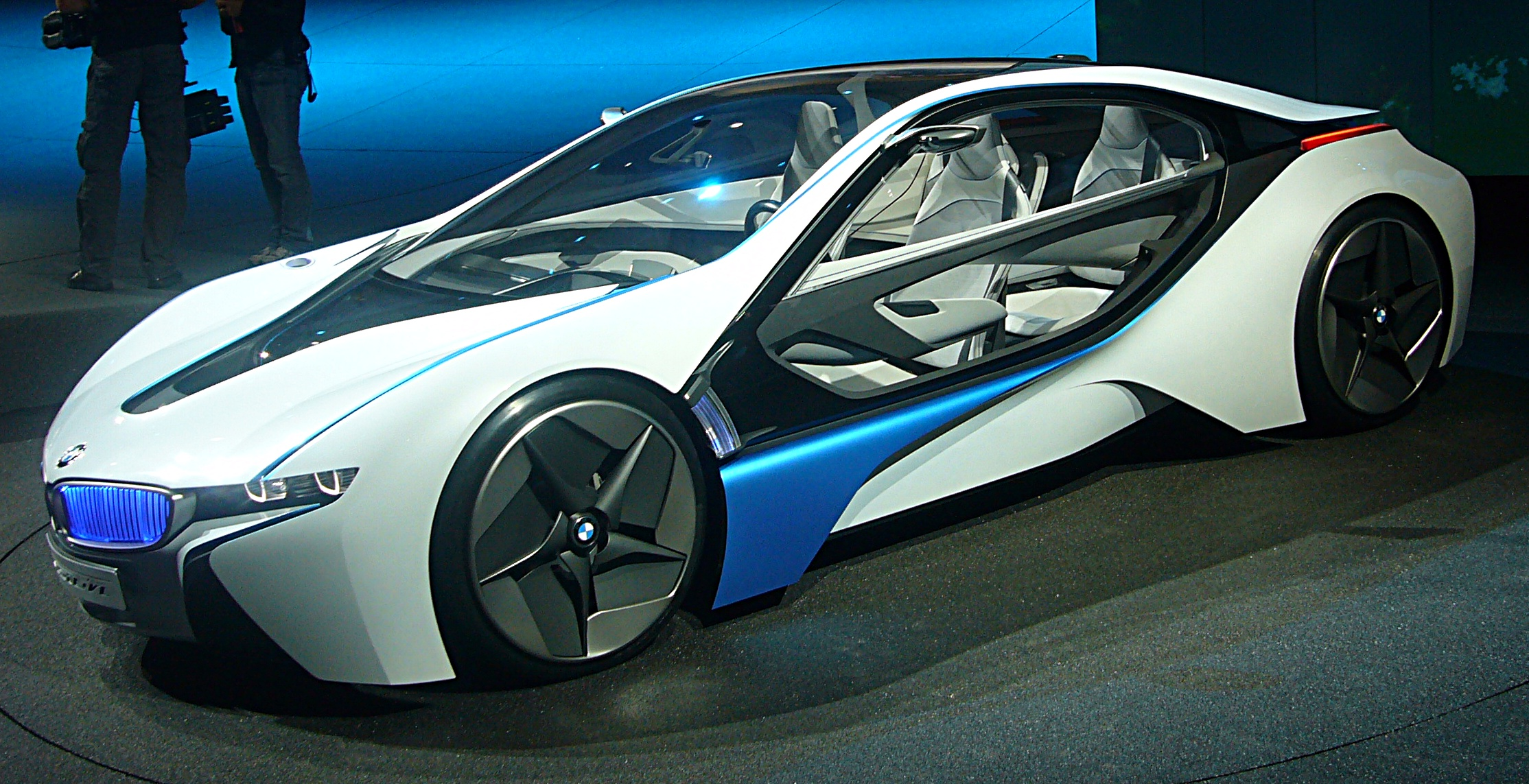 BMW Vision Efficient Dynamics Concept at IAA Frankfurt 2009